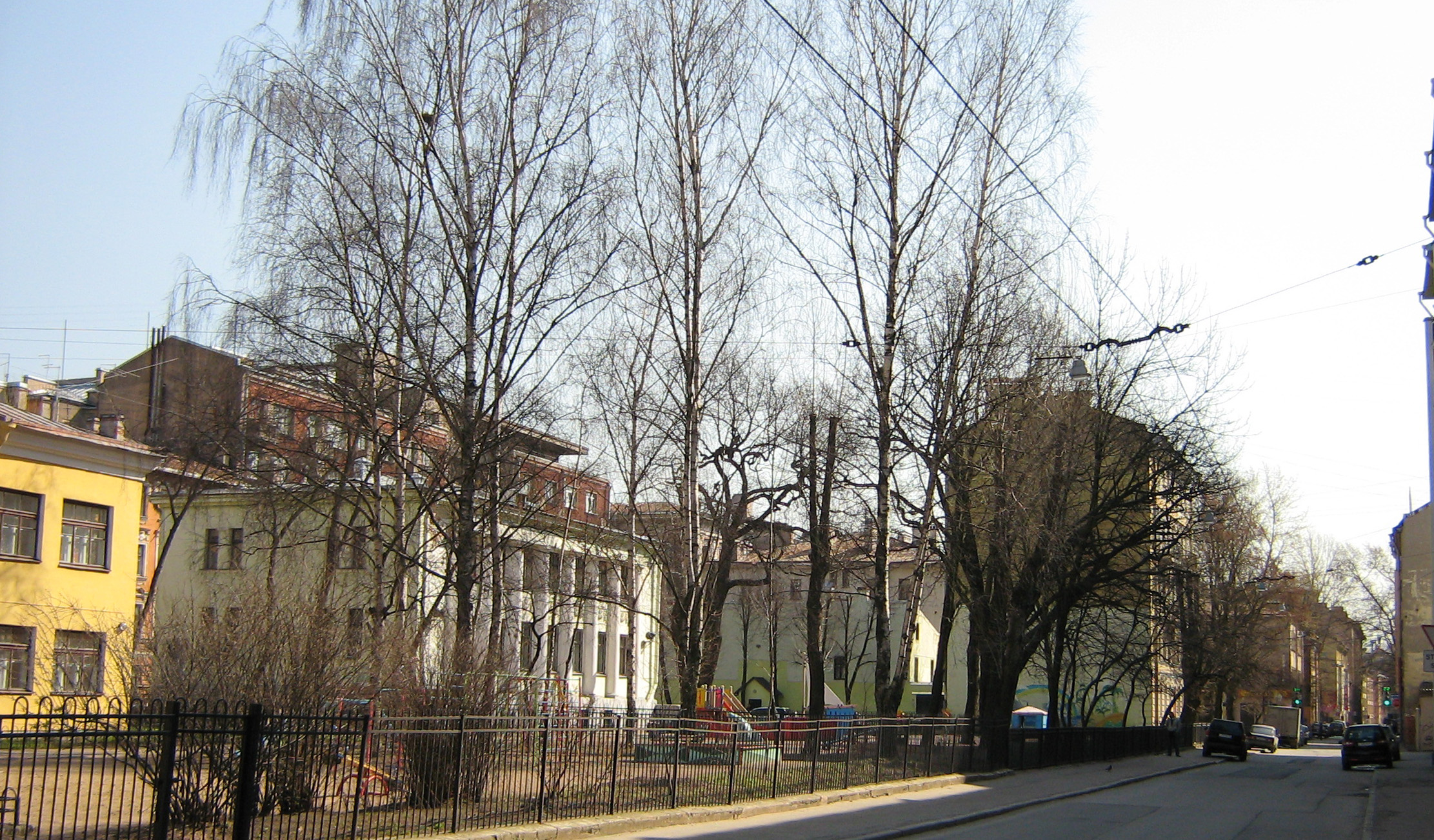 Kindergarten in Barmaleeva street, 29 (Saint-Petersburg, Russia)